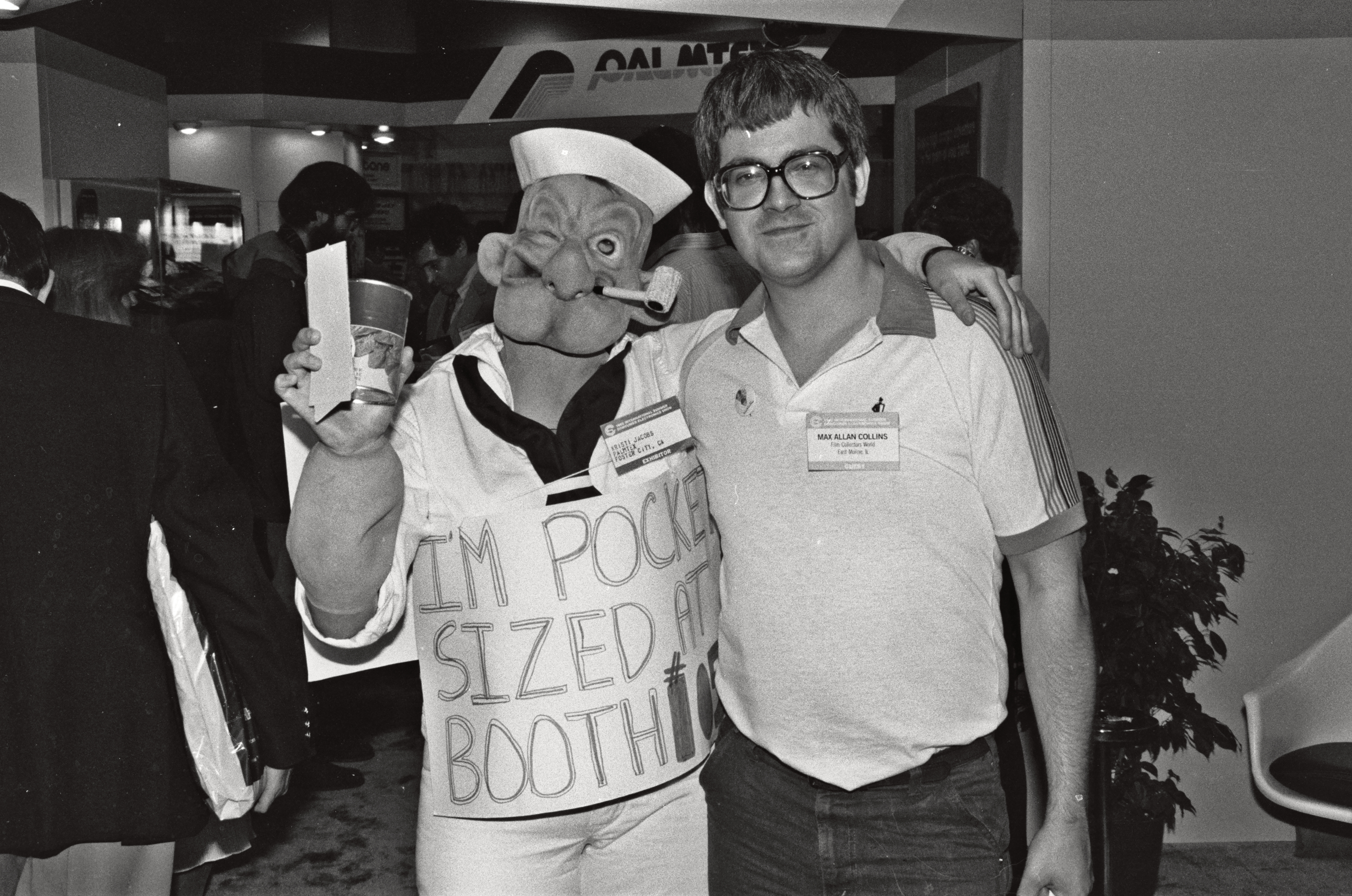 1982 Consumer Electronics Show - McCormick place, Chicago